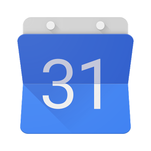 Logo of the Google Calendar web-based application.